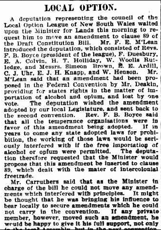 Extract from the 1897 article "Local Option" published in the now defunct Sydney newspaper The Evening News. The article describes the Local Option League of New South Wales' request that the Minister for Lands move an amendment to the proposed Federal Constitution which would permit States to regulate imported alcohol. (The amendment was eventually accepted as Section 113 of the Constitution of Australia.)